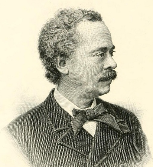 Lewis Beach, Congressman from New York